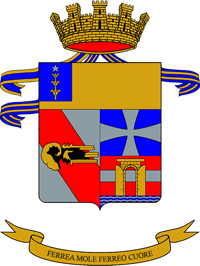 Coat of Arms of the 32° Tank Regiment; Italian Army.